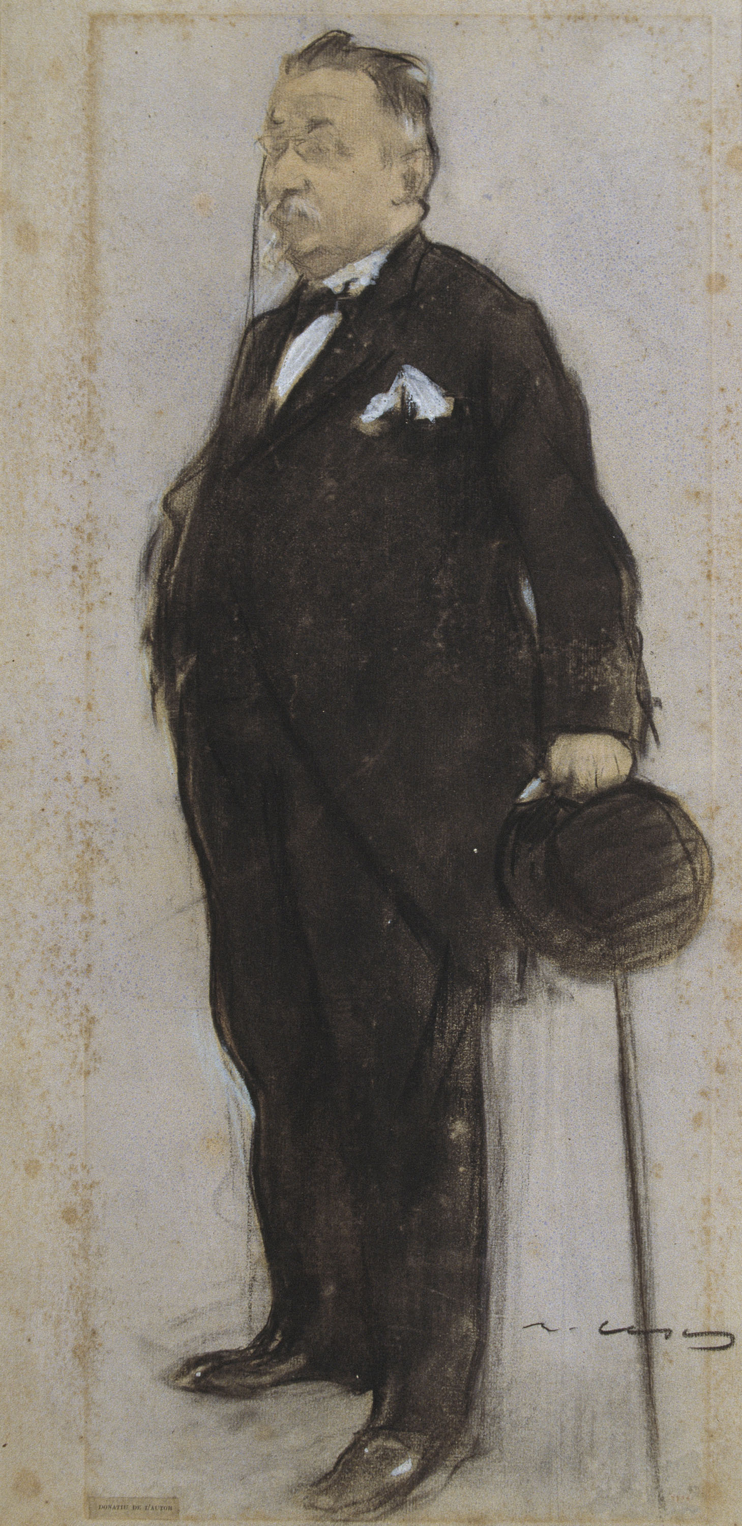 Portrait by Ramon Casas conserved at MNAC in Barcelona. Imagen 057